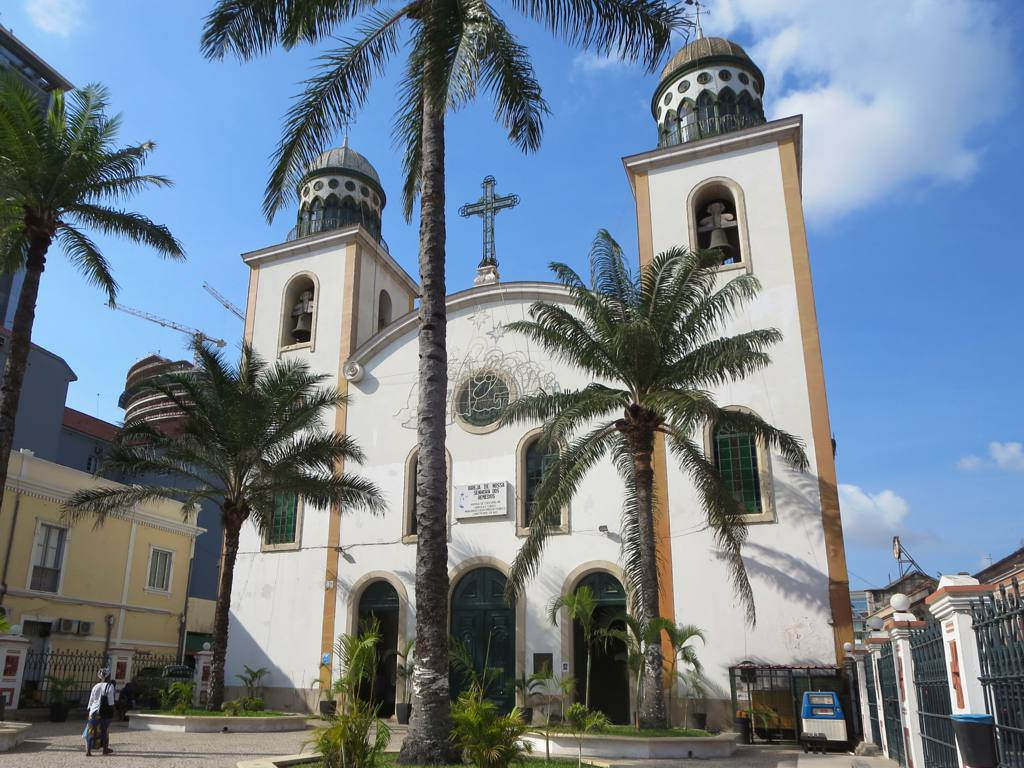 Facade of Luanda Cathedral (Igreja de Nossa Senhora dos Remédios), Luanda, Angola